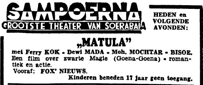 Advertisement for the 1941 film Matula